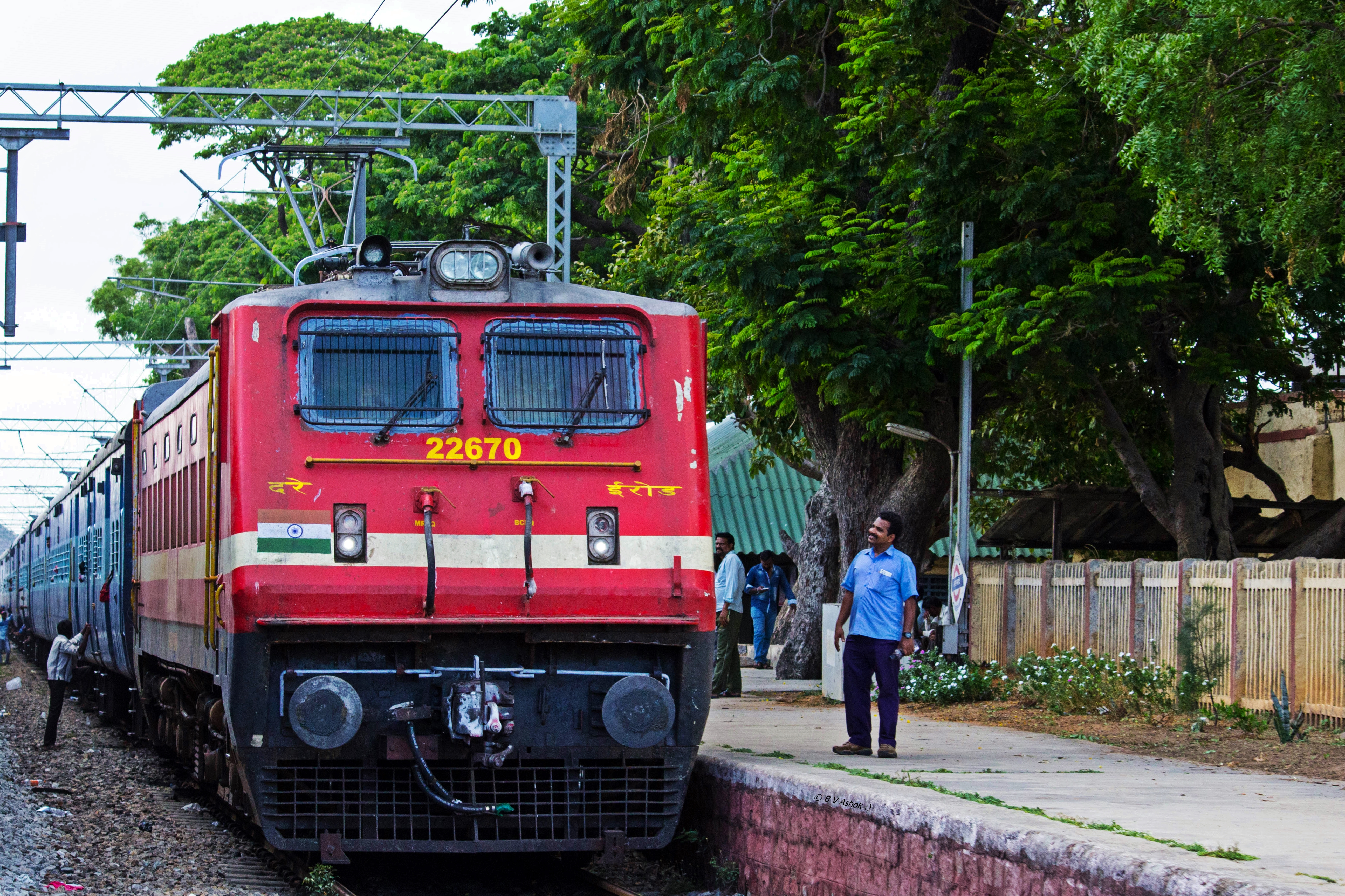 ED WAP-4 22670 waiting patiently at Thondebhavi with 56504 Vijayawada - Bangalore Cantonment Passenger....